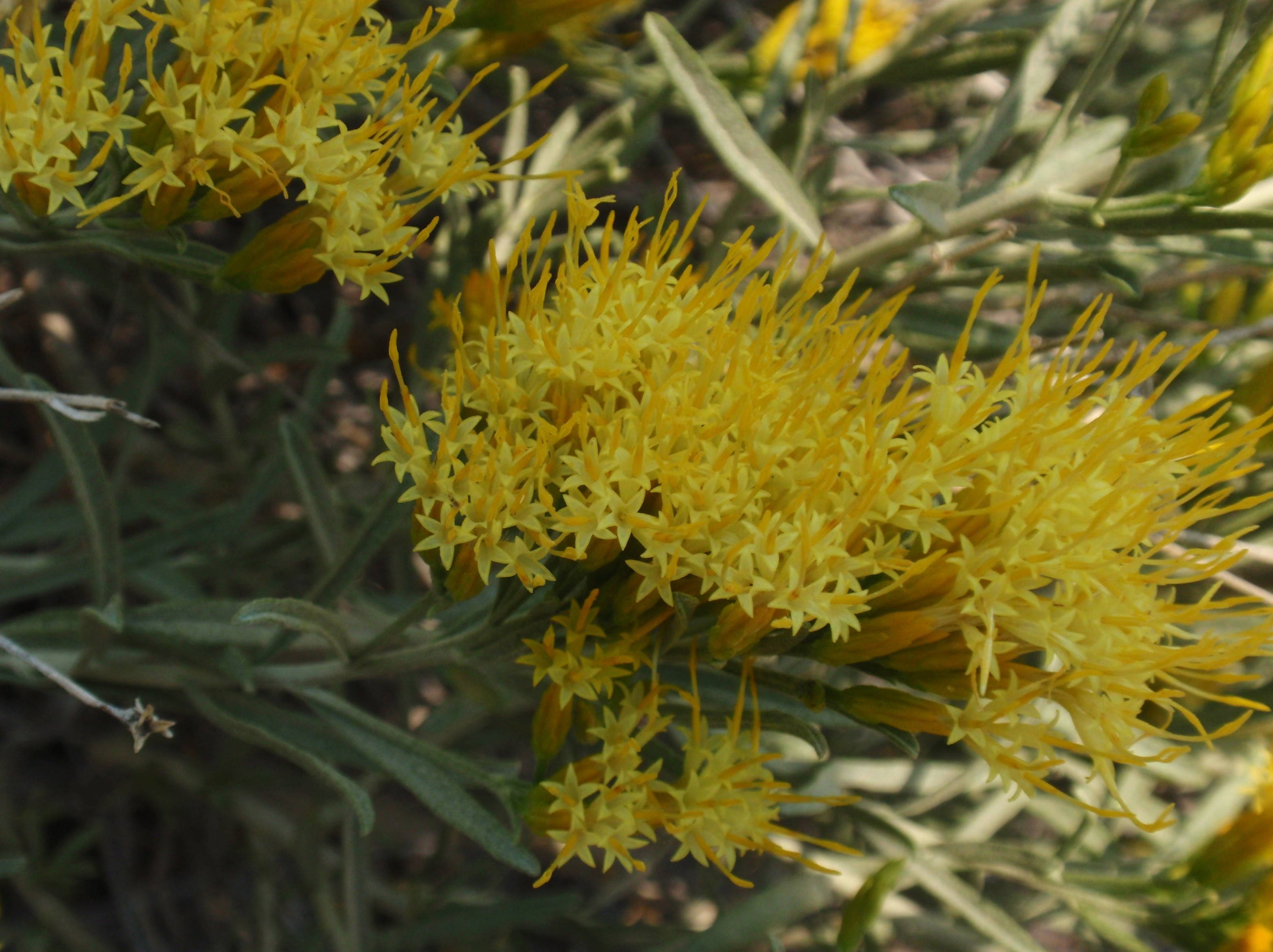 Rabbitbrush 02